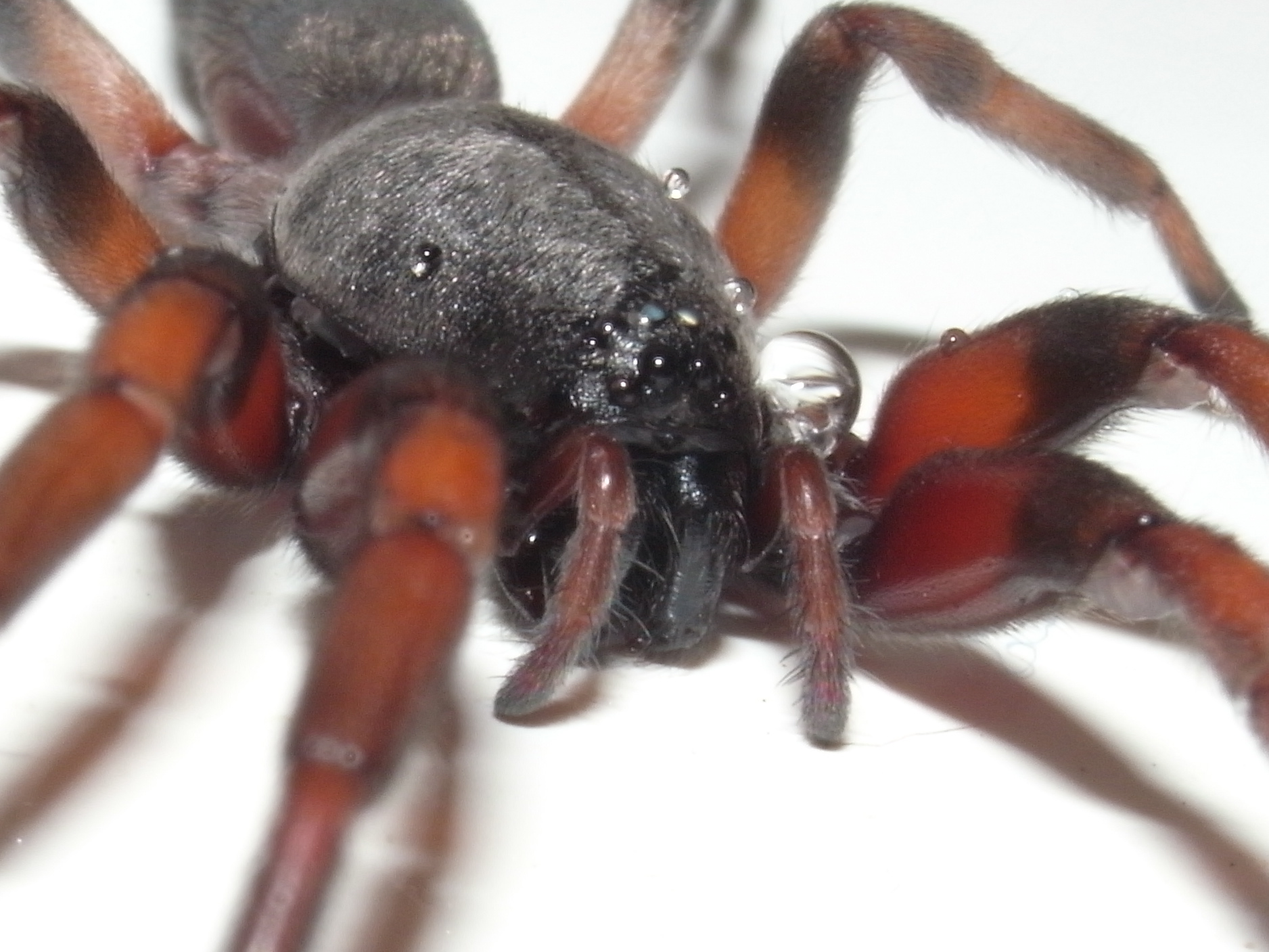 White Tailed Spider-Close up